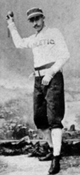 Photo of Gus Weyhing